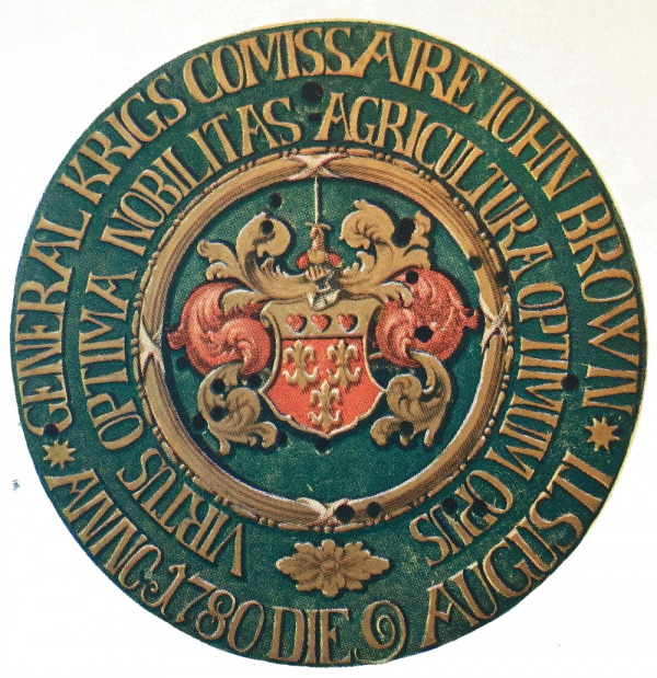 Ceremonial target donated by John Brpwn to the Royal Copenhagen Shooting Society